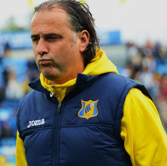 Miodrag Božović